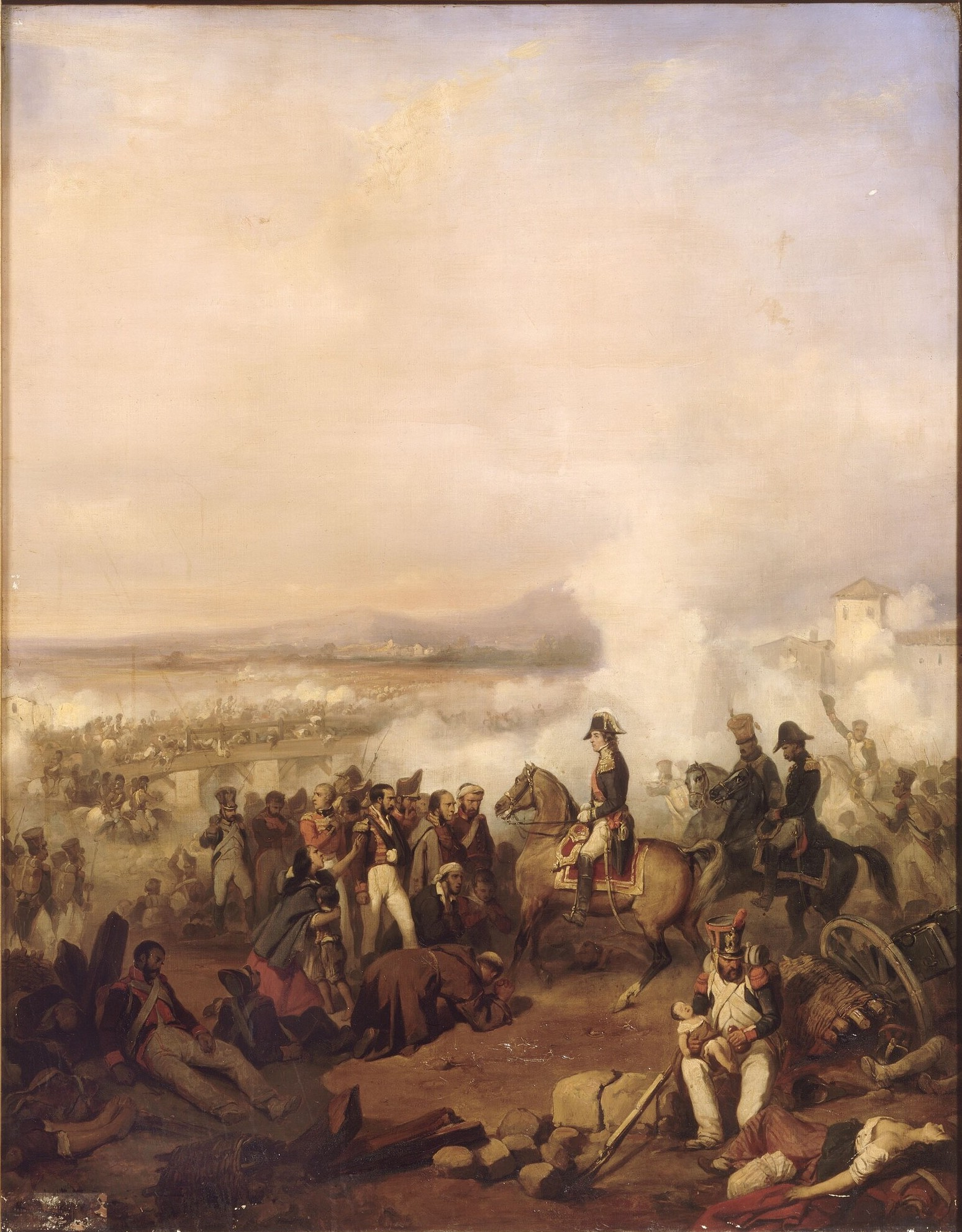 Marshal Nicolas Soult at the battle of Oporto